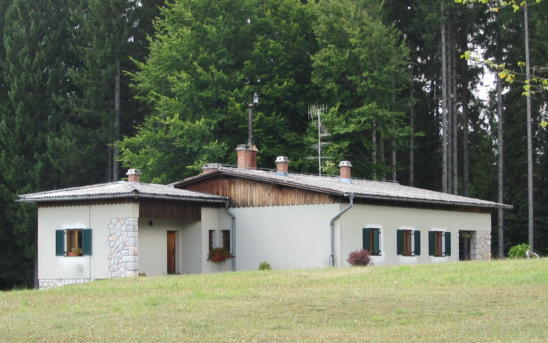 The Iskrba hunting lodge in the hamlet of Jelenja Vas in the village of Štalcerji, Municipality of Kočevje, Slovenia